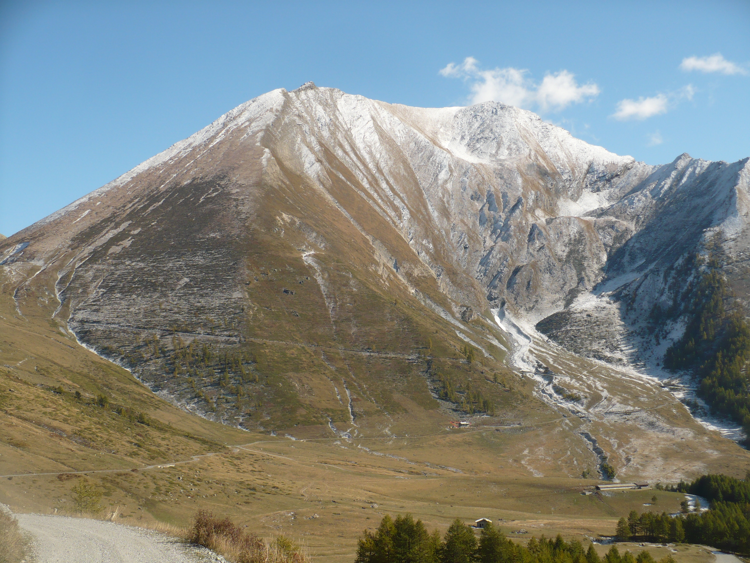 Mont Français Pelouxe - Cottian Alps - Province of Turin - Italy